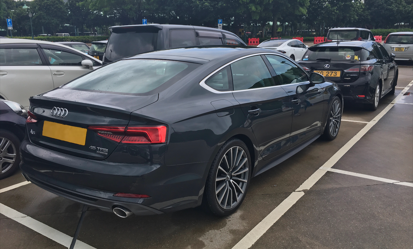 Audi A5 Sportback 45 TFSI Quattro Back